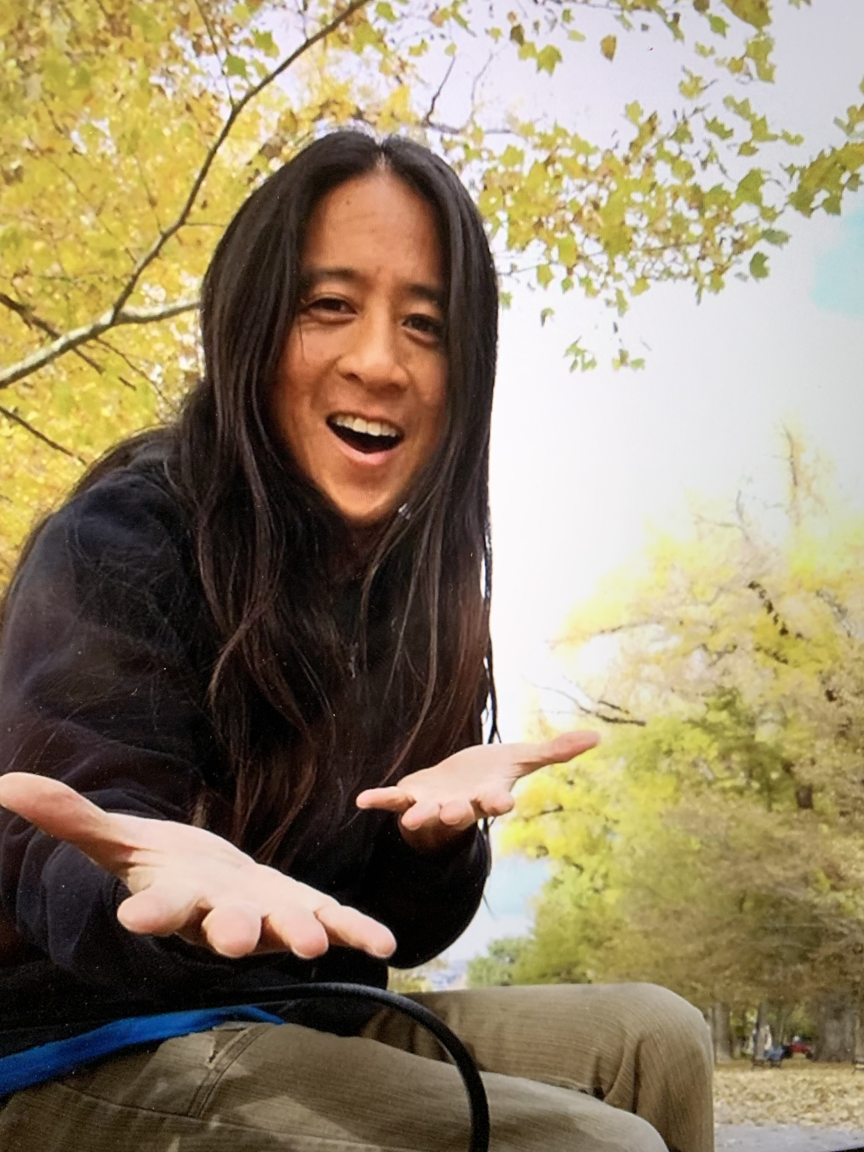 Kealoha in Utah (2018)